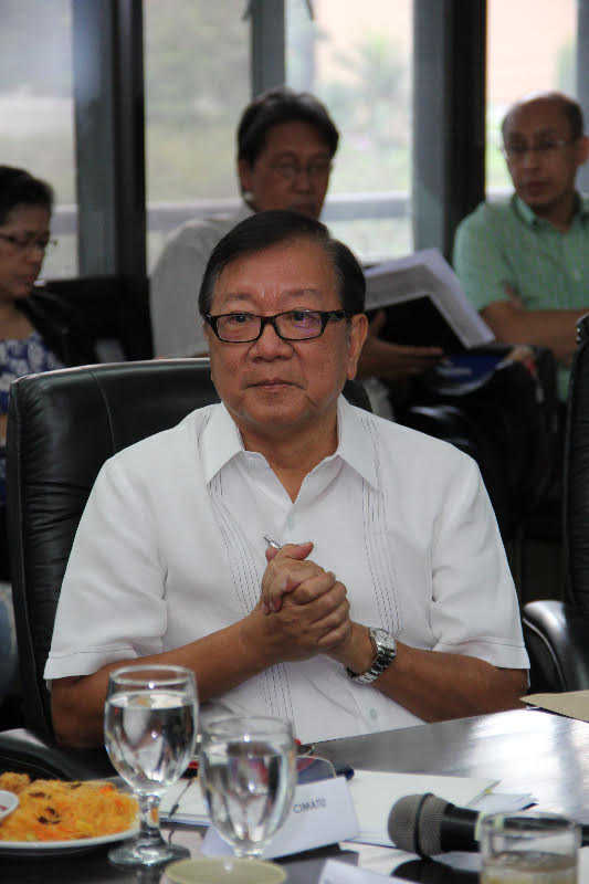 The provincial governor of Aklan Florencio Miraflores, in behalf the of the stakeholders, presented their Pledge of Commitment to Task Force Save Boracay in a bid to address the pressing concerns of the island. Aklan Governor Florencio Miraflores promises to deliver results on their Pledge of Commitment in one month.